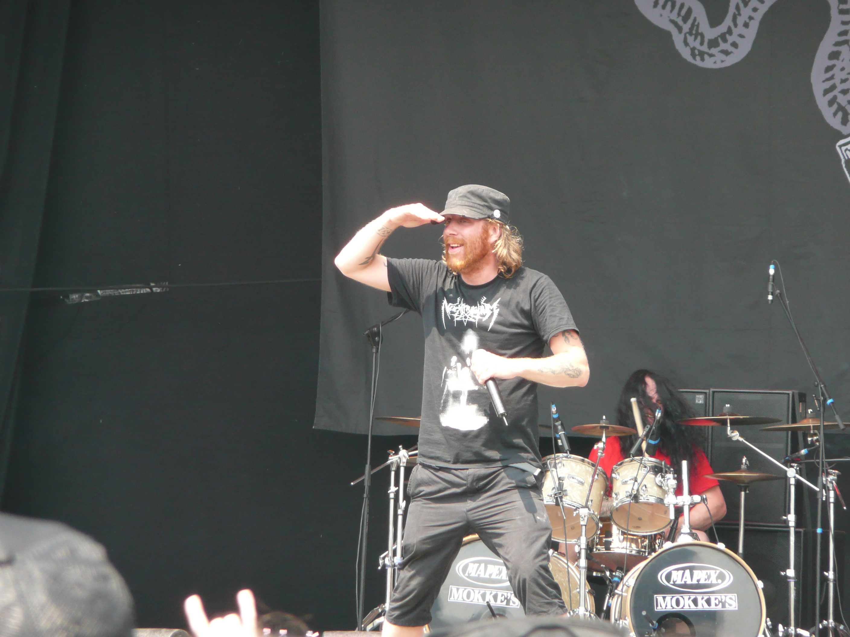 Tomas Lindberg performing with At The Gates at Gods of Metal Festival, Bologna, Italy.